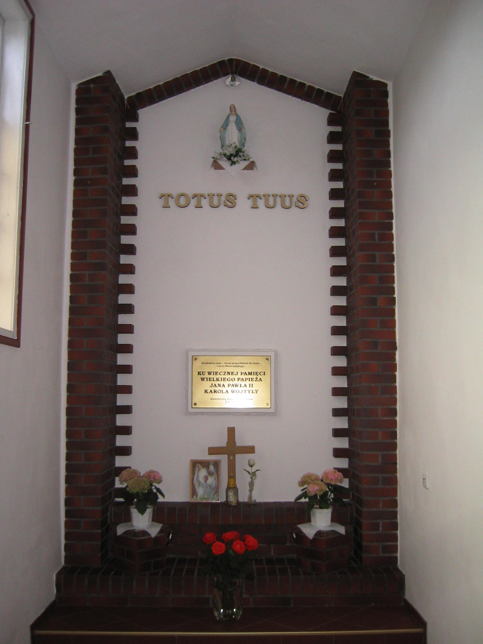 Church of the Black Madonna of Częstochowa (Głogówko, Lower Silesian Voivodeship)